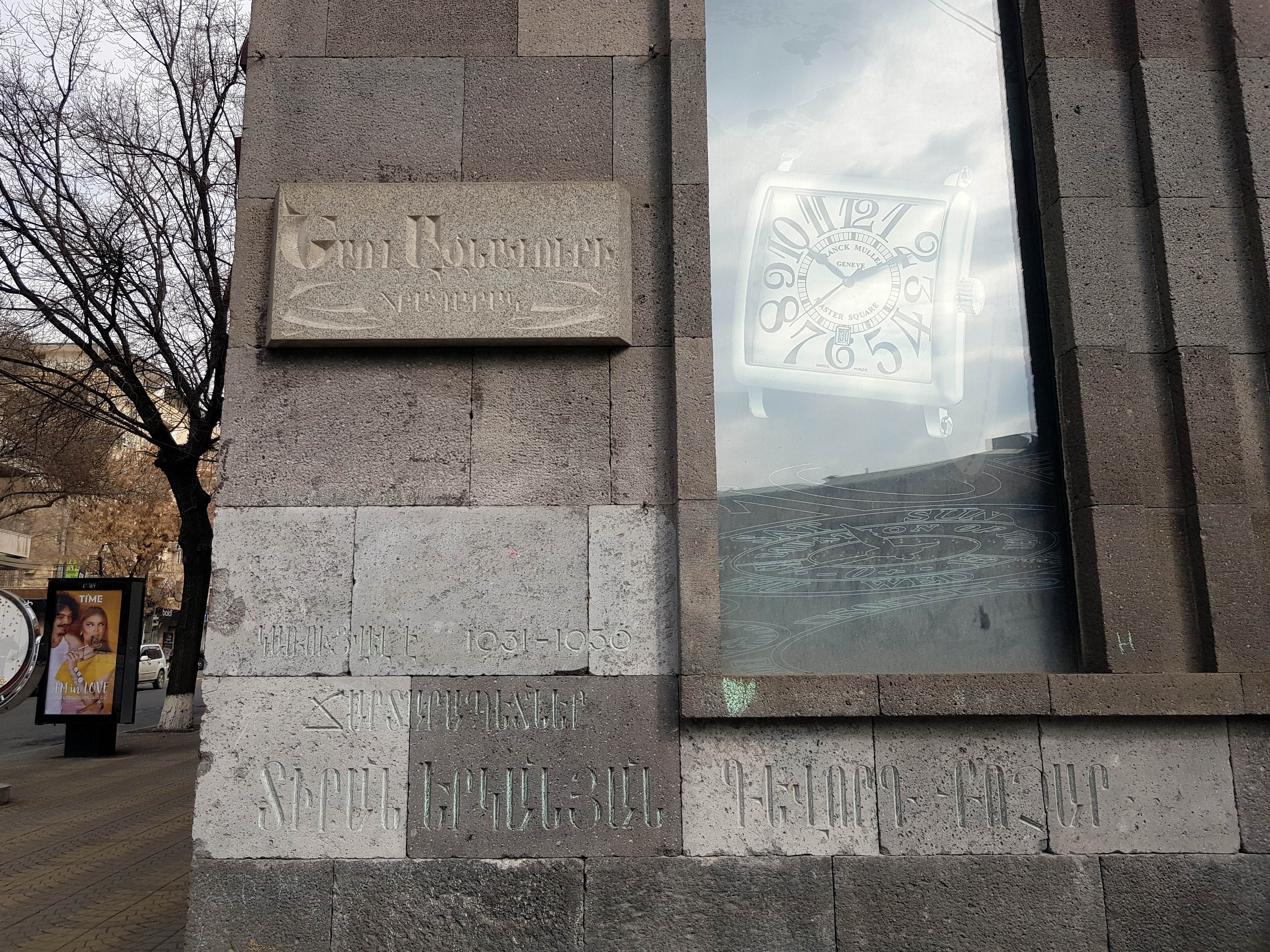 Charles Aznavour Square plaque